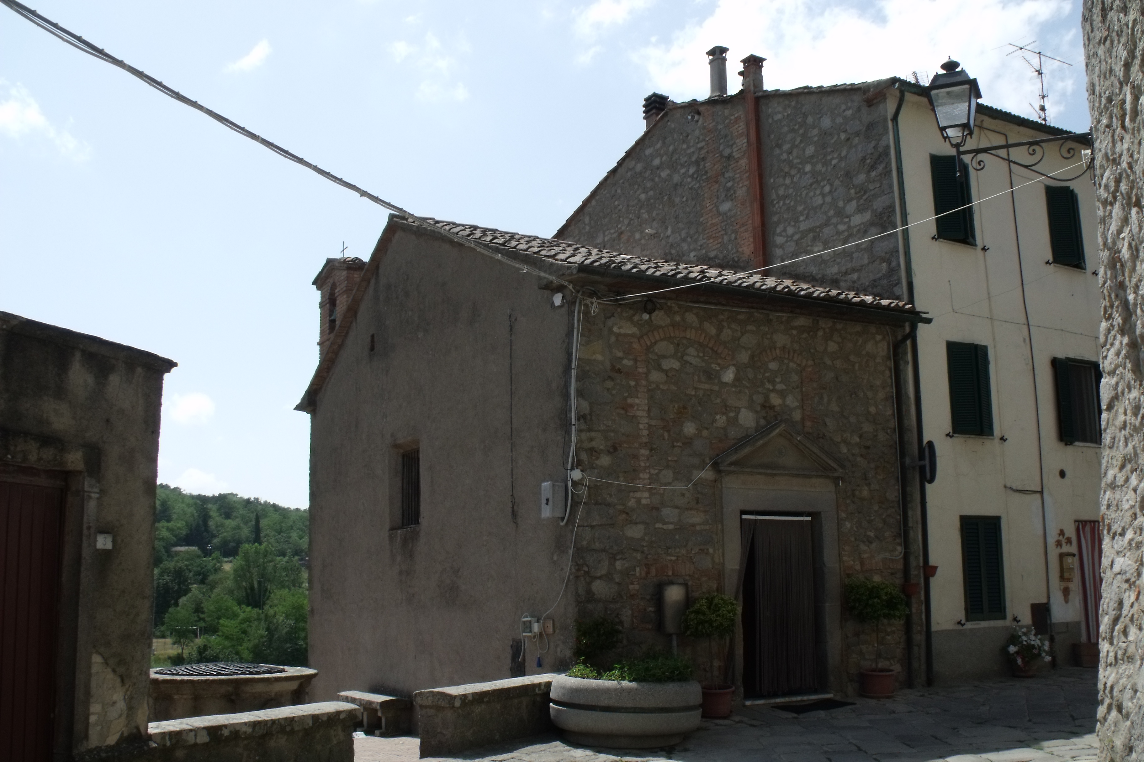 Chiesa della Compania di San Sebastiano in Torniella, Hamlet of Roccastrada, Maremma, Province of Grosseto, Tuscany, Italy